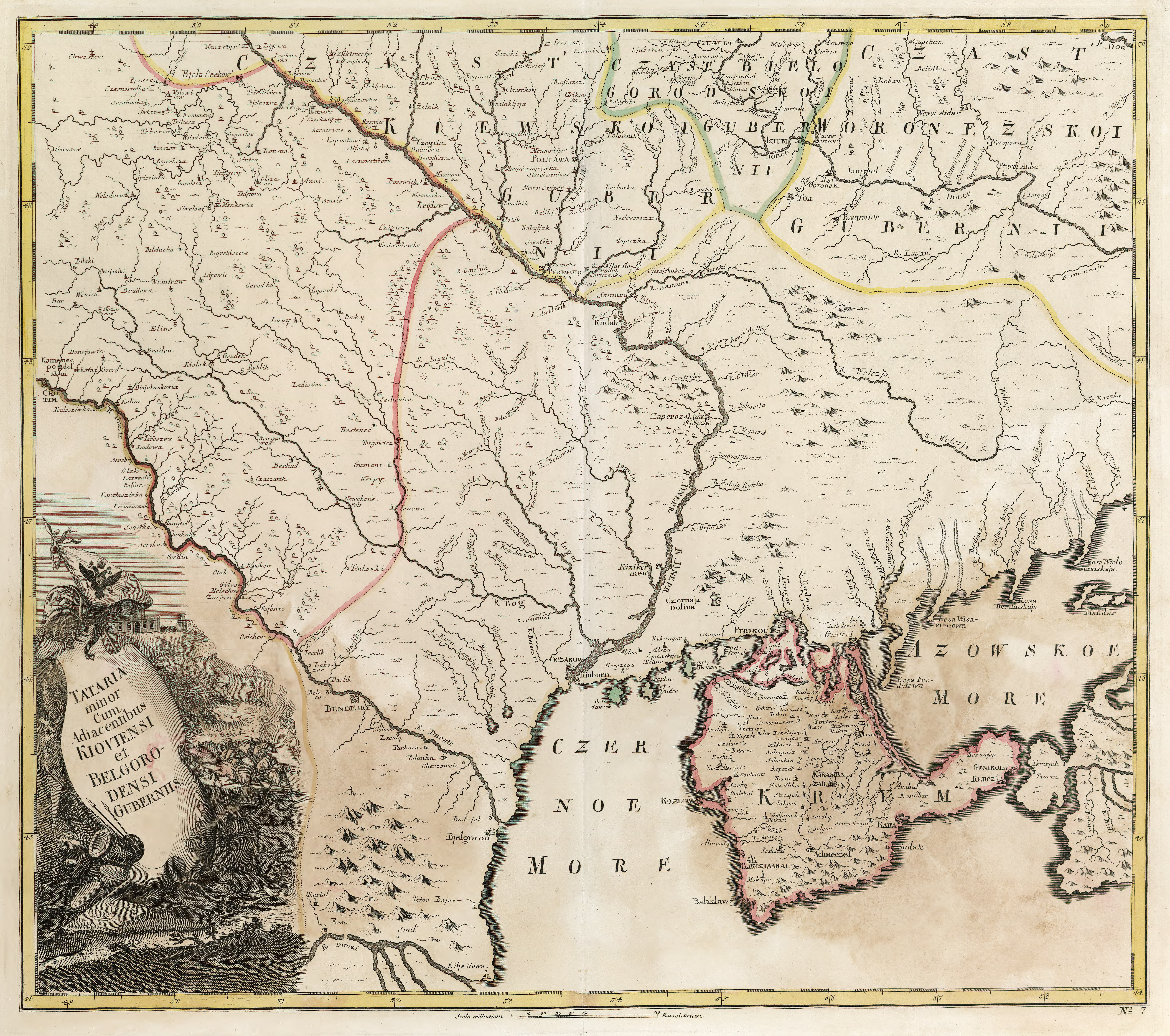 First official geographic atlas of the Russian Empire (1745). Malaya Tataria and parts of Kiev & Belgorod governorates in Latin. Hand-coloured copper engraving.